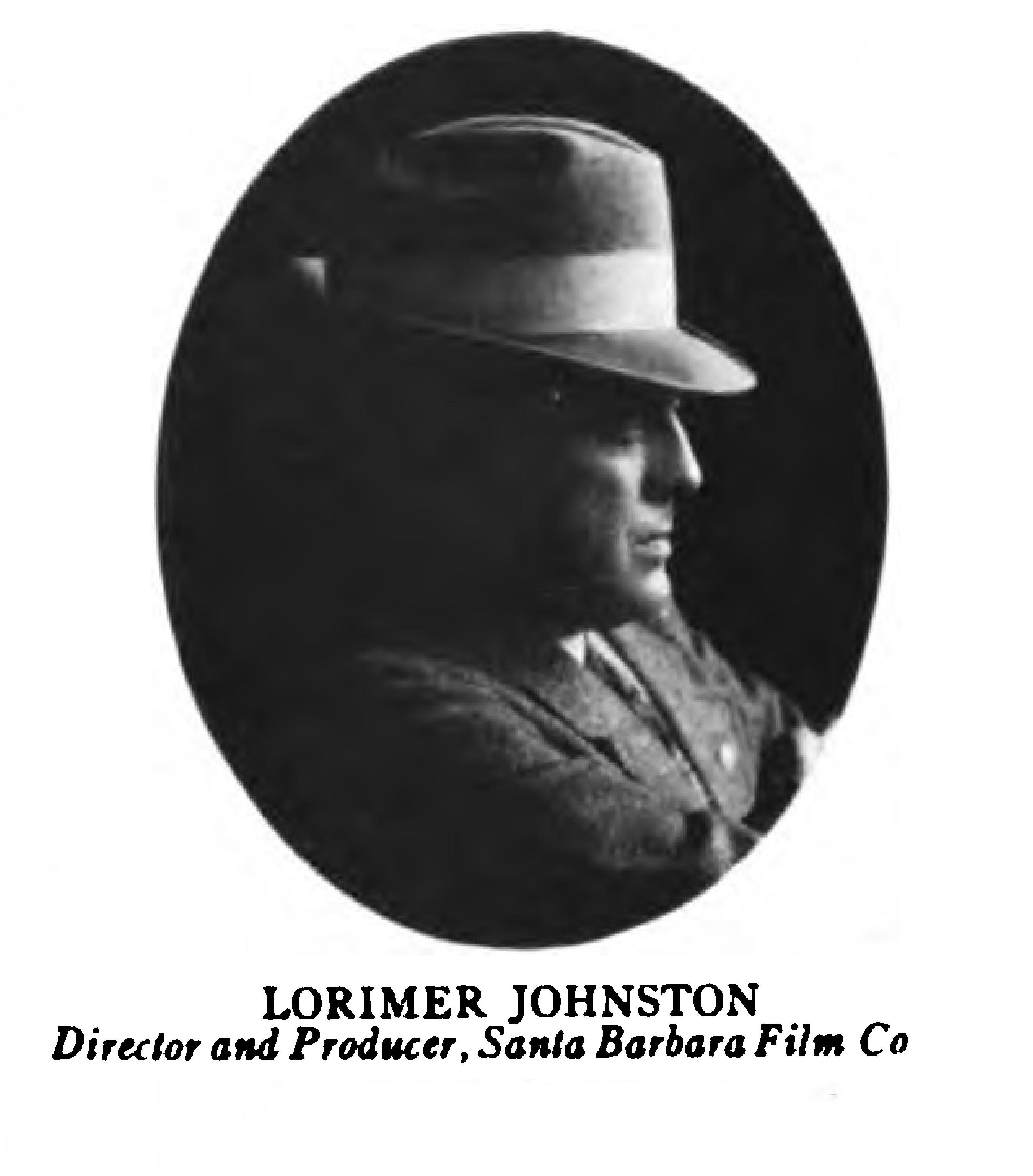 Lorimer Johnston (2 November 1858, Maysville, Kentucky, - 20 February 1941, Hollywood, California) was an American silent film actor and director.